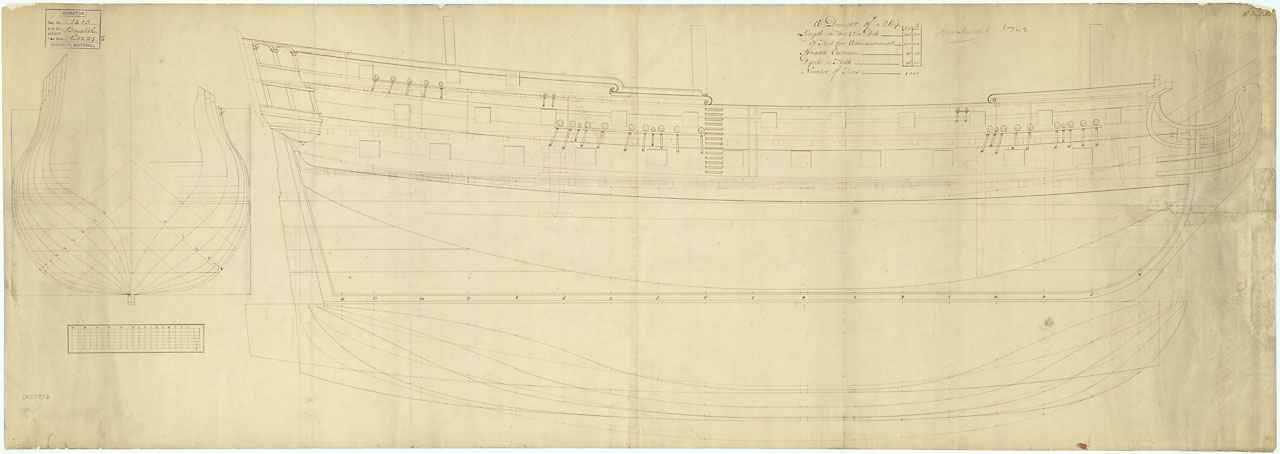 Bristol (1746); Rochester (1749) Scale: 1:48. Plan showing the body plan, sheer lines with some inboard detail, and longitudinal half-breadth for Bristol (1746), and later for Rochester (1749), both 50-gun Fourth Rate, two-deckers. BRISTOL 1775